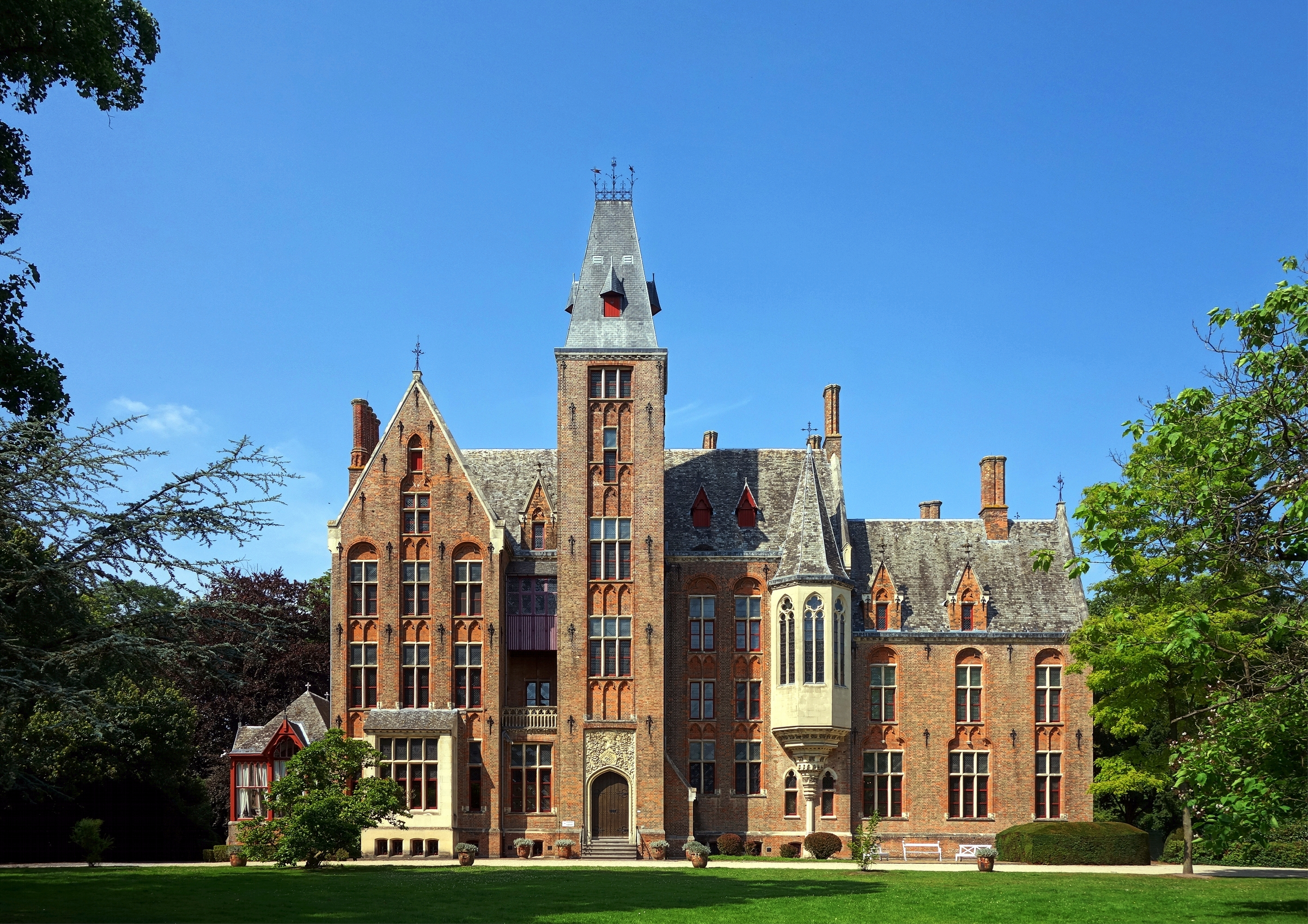 The Castle of Loppem, Belgium, built from 1859 to 1862 by Edward Welby Pugin and Jean-Baptiste de Béthune.